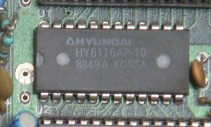 Static Ram chip form a NES clone. 2K X 8 bit